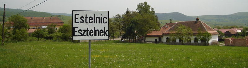 ESZTELNEK (Estelnic) Franciscan monastery and school